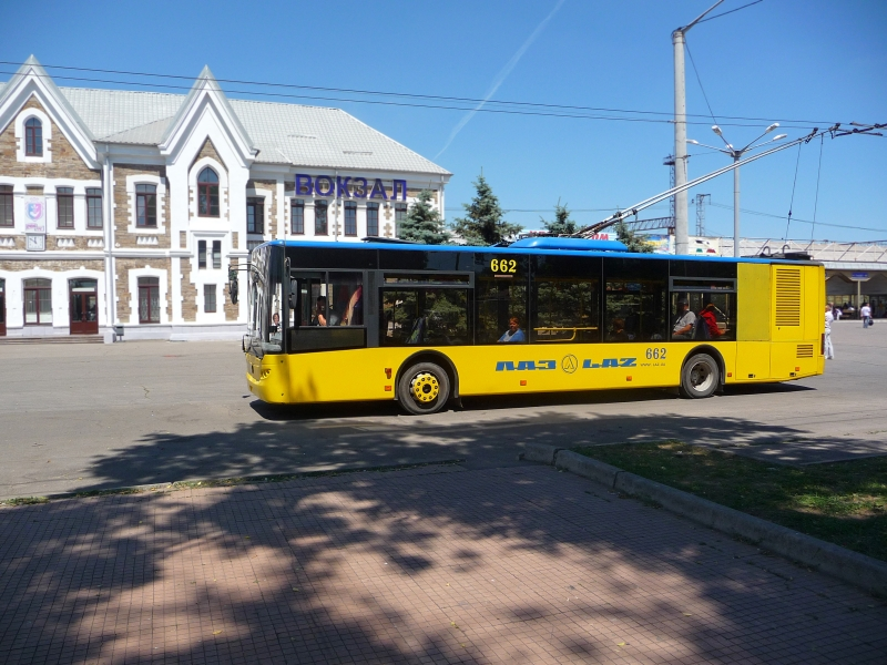 LAZ trolleybus at the station Krivoy Rog-Chief